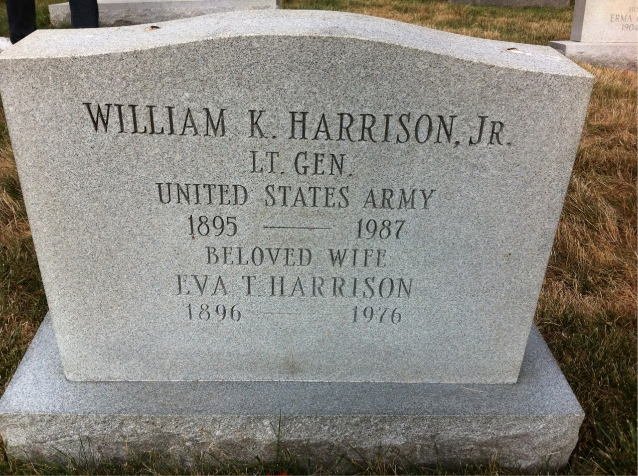 Grave of William Kelly Harrison Jr. at Arlington National Cemetery